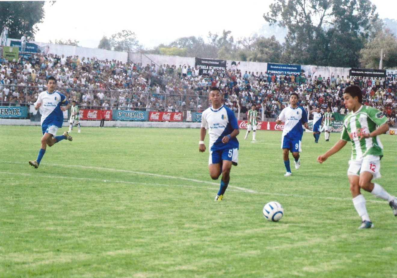 soccer antigua gfc